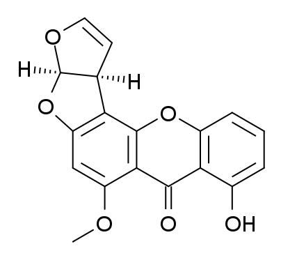 Sterigmatocystin chemical diagram